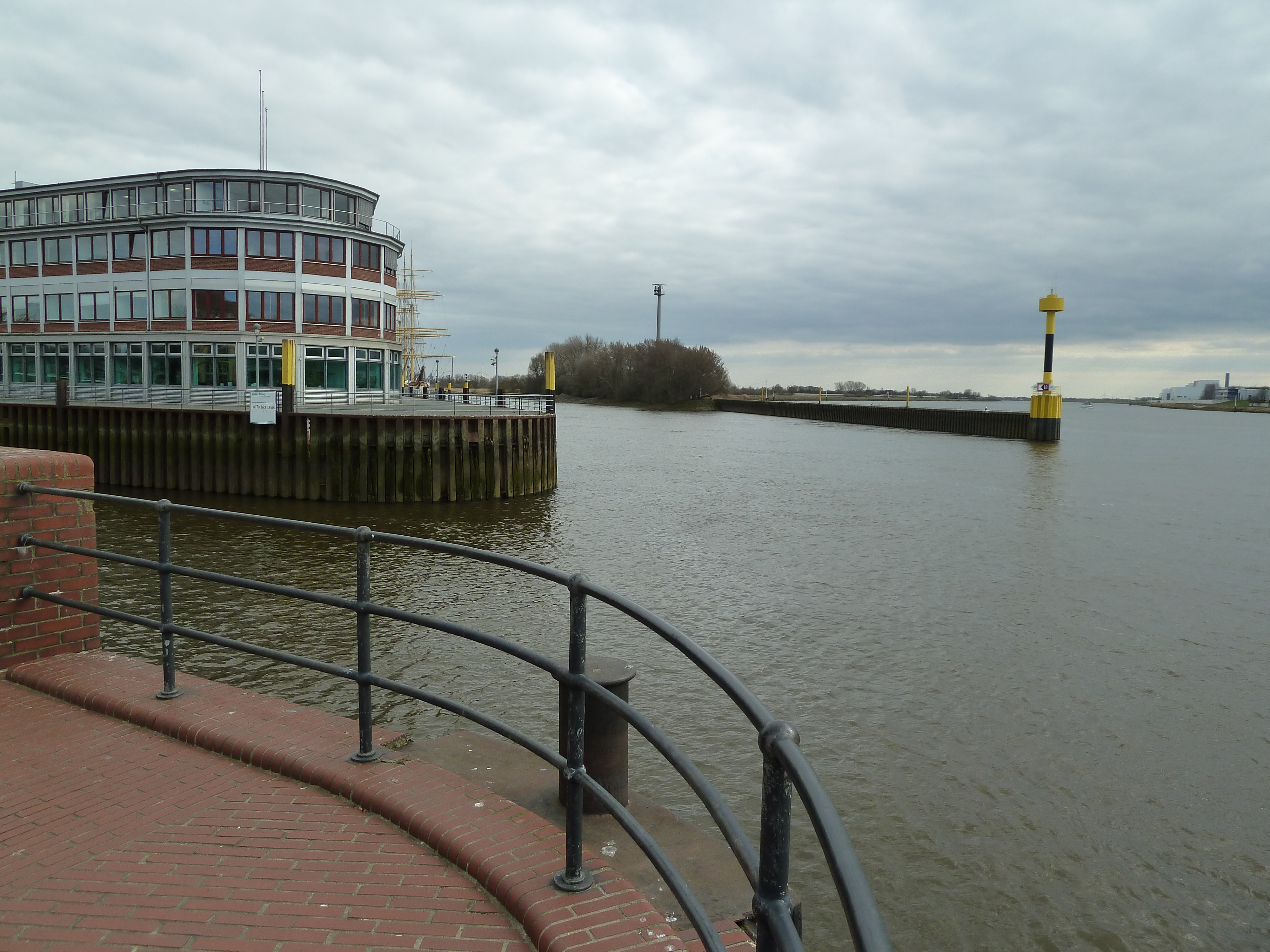 Vegesack harbour - meeting of harbour, Lesum and Weser